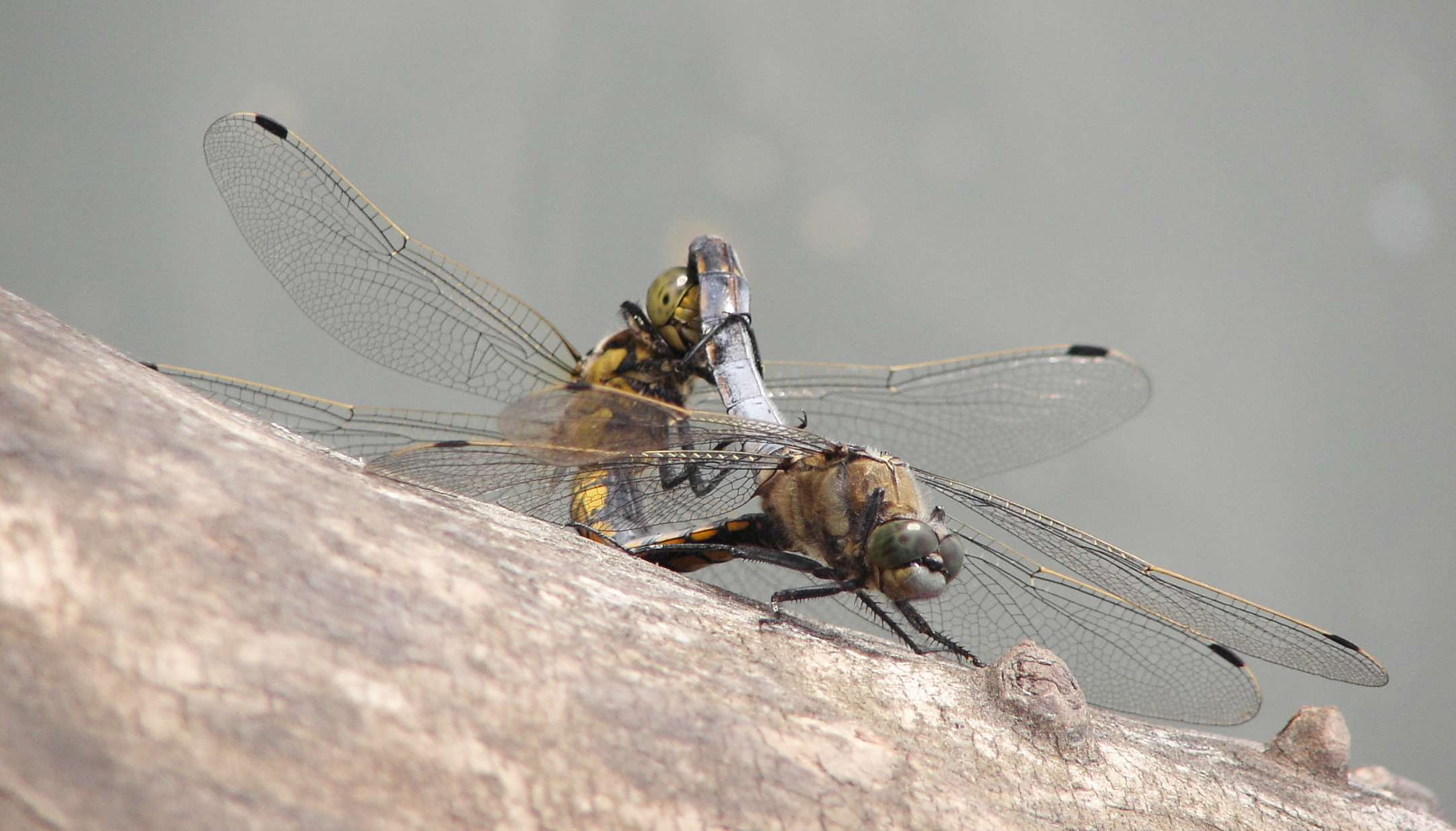 Orthetrum cancellatum (Black-tailed skimmer) couple, mating at a sea in Cologne, Germany.